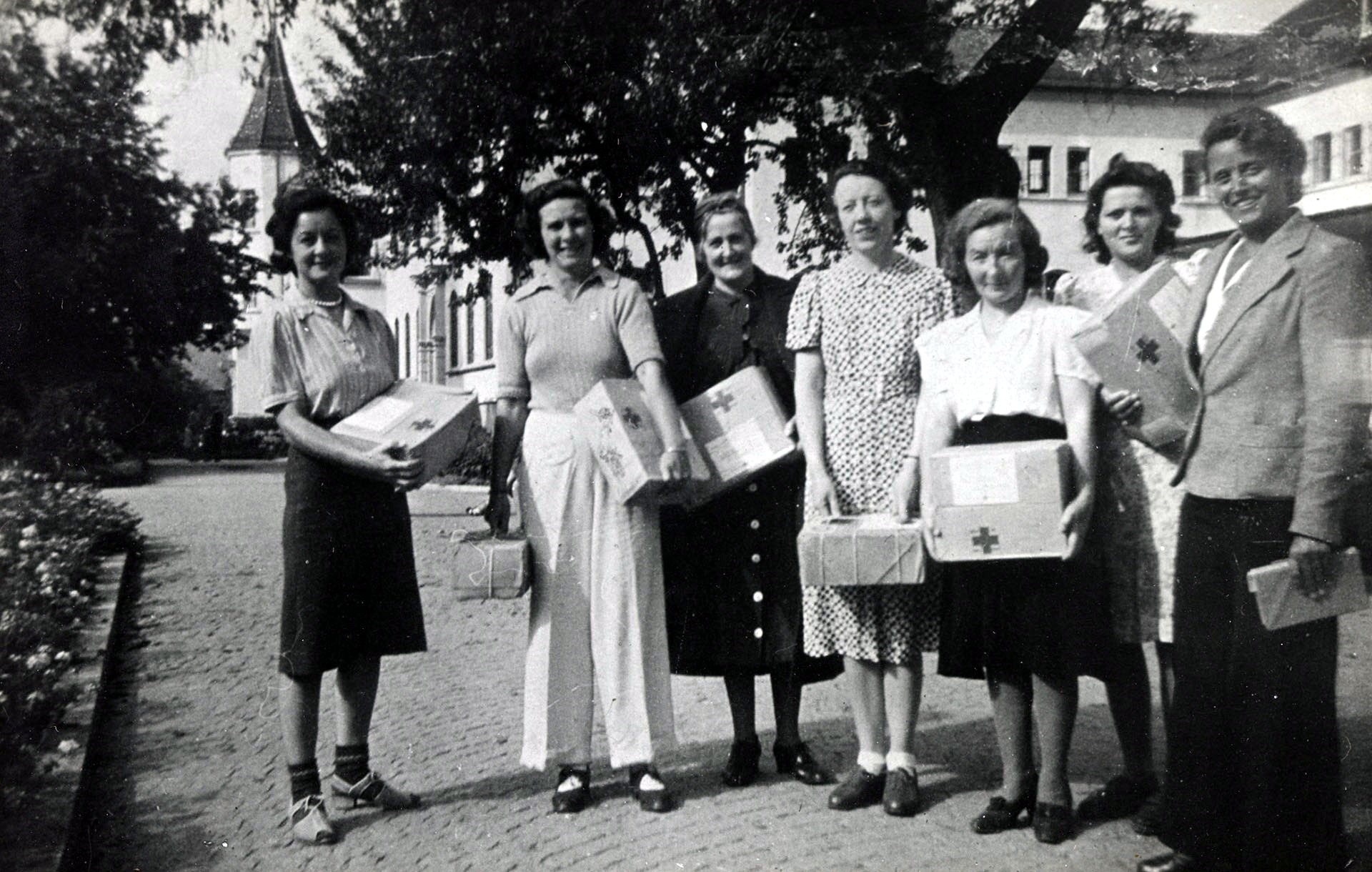 Civil internees with Red Cross care packages. Sanitorium Liebenau, Germany, c.1940